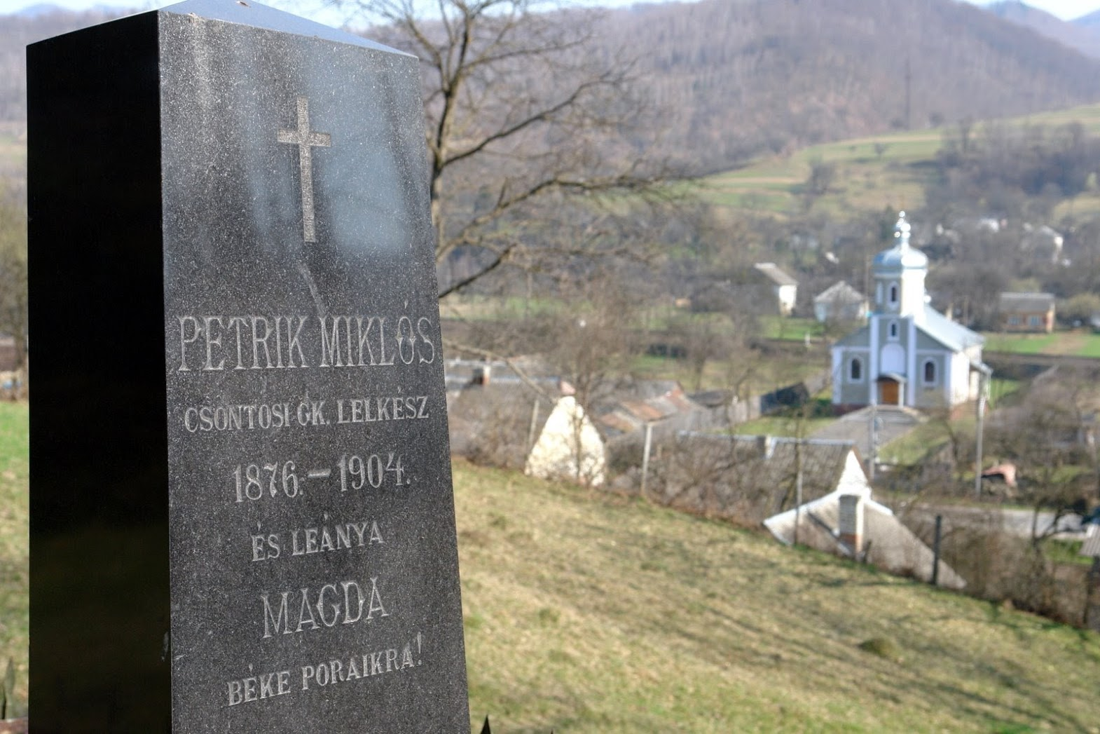 downhill view from a tree beside the Church of the Intercession, Kostryna